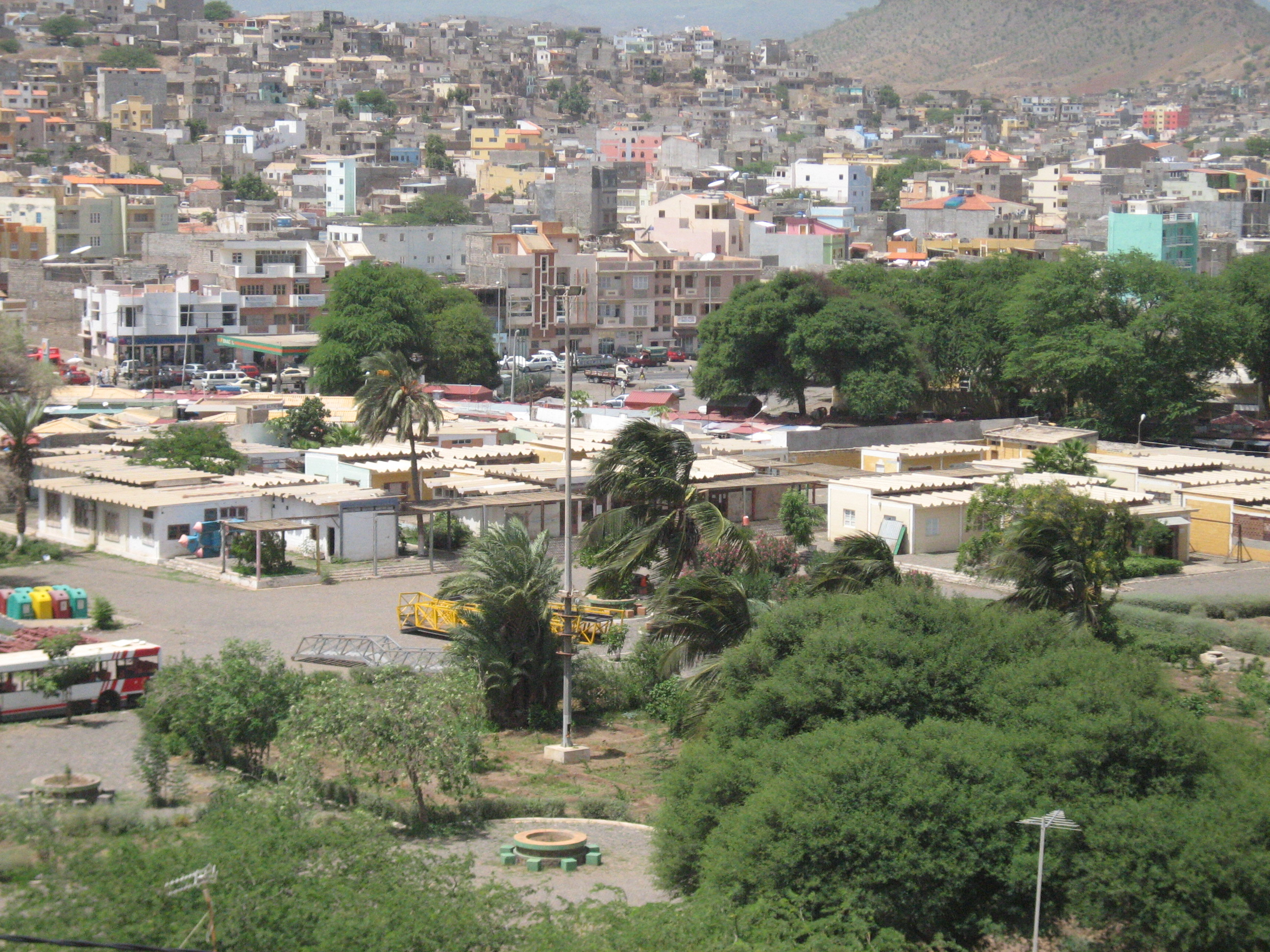 View over the capeverdean capital Praia as seen from the Plato